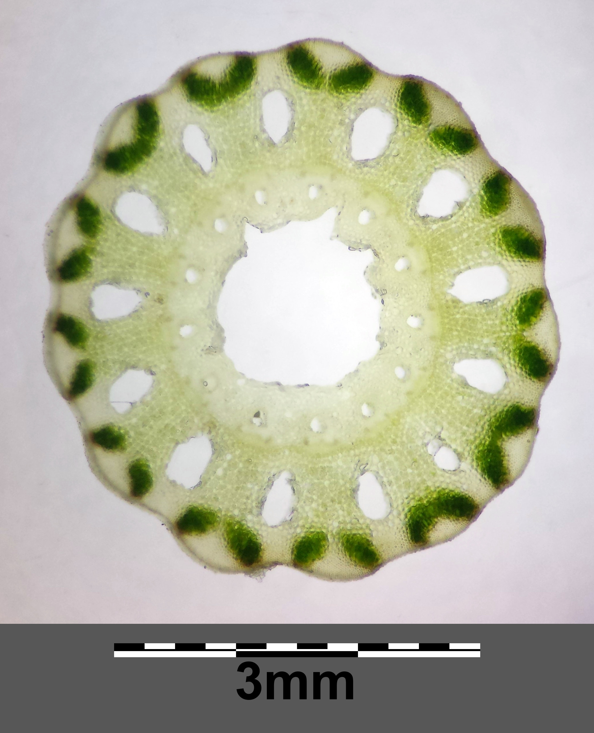 Cross section of stem (sterile stem) Taxonym: Equisetum arvense subsp. arvense ss Fischer et al. EfÖLS 2008 ISBN 978-3-85474-187-9 Location: near Niederhollabrunn, district Korneuburg, Lower Austria - ca. 350 m a.s.l. Habitat: field